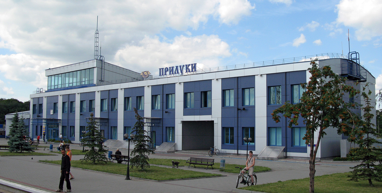 Pryluky railway station, Southern Railway, Ukraine